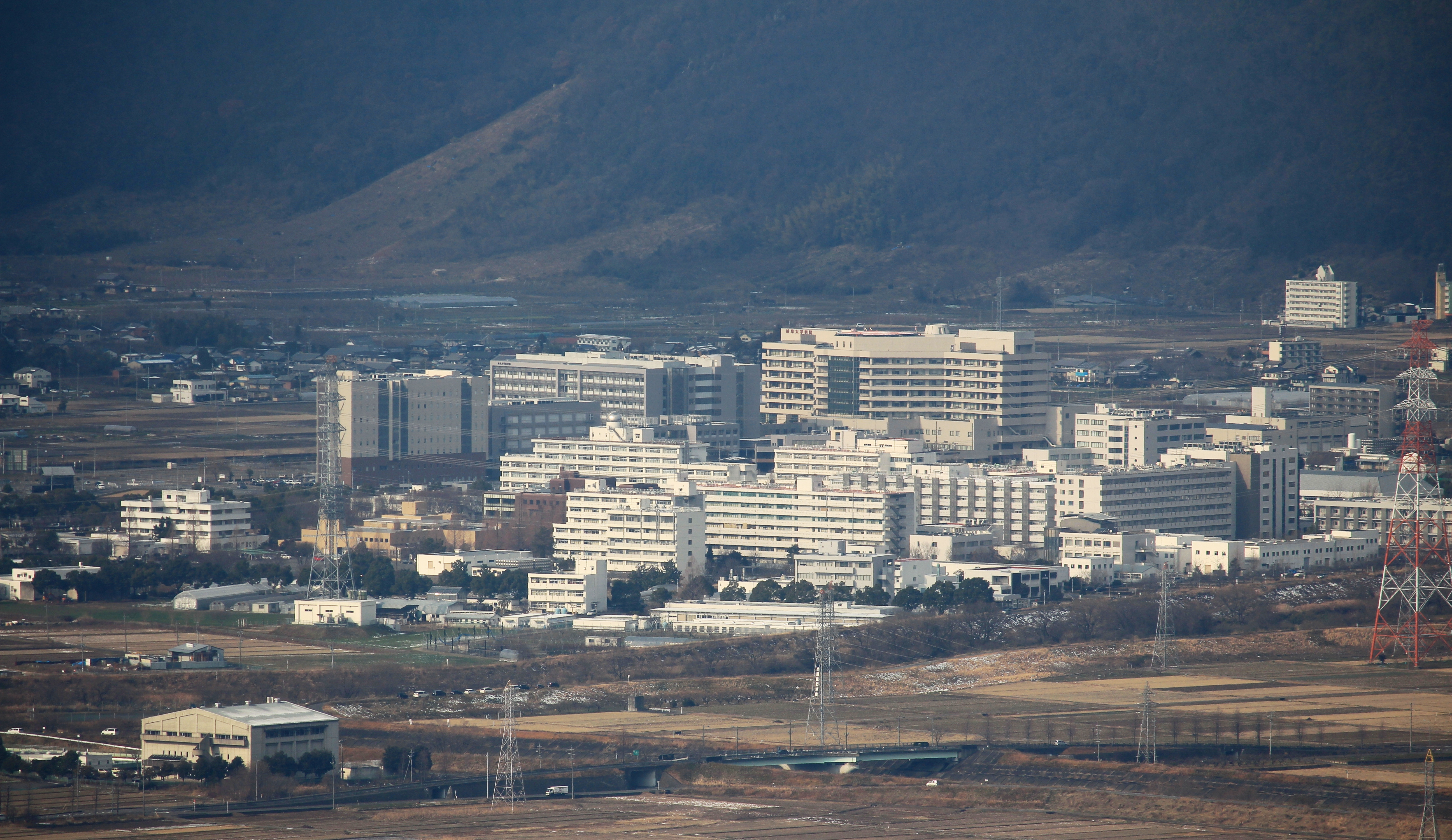 Gifu University seen from Mount Kinka in Gifu city, Gifu prefecture, Japan.